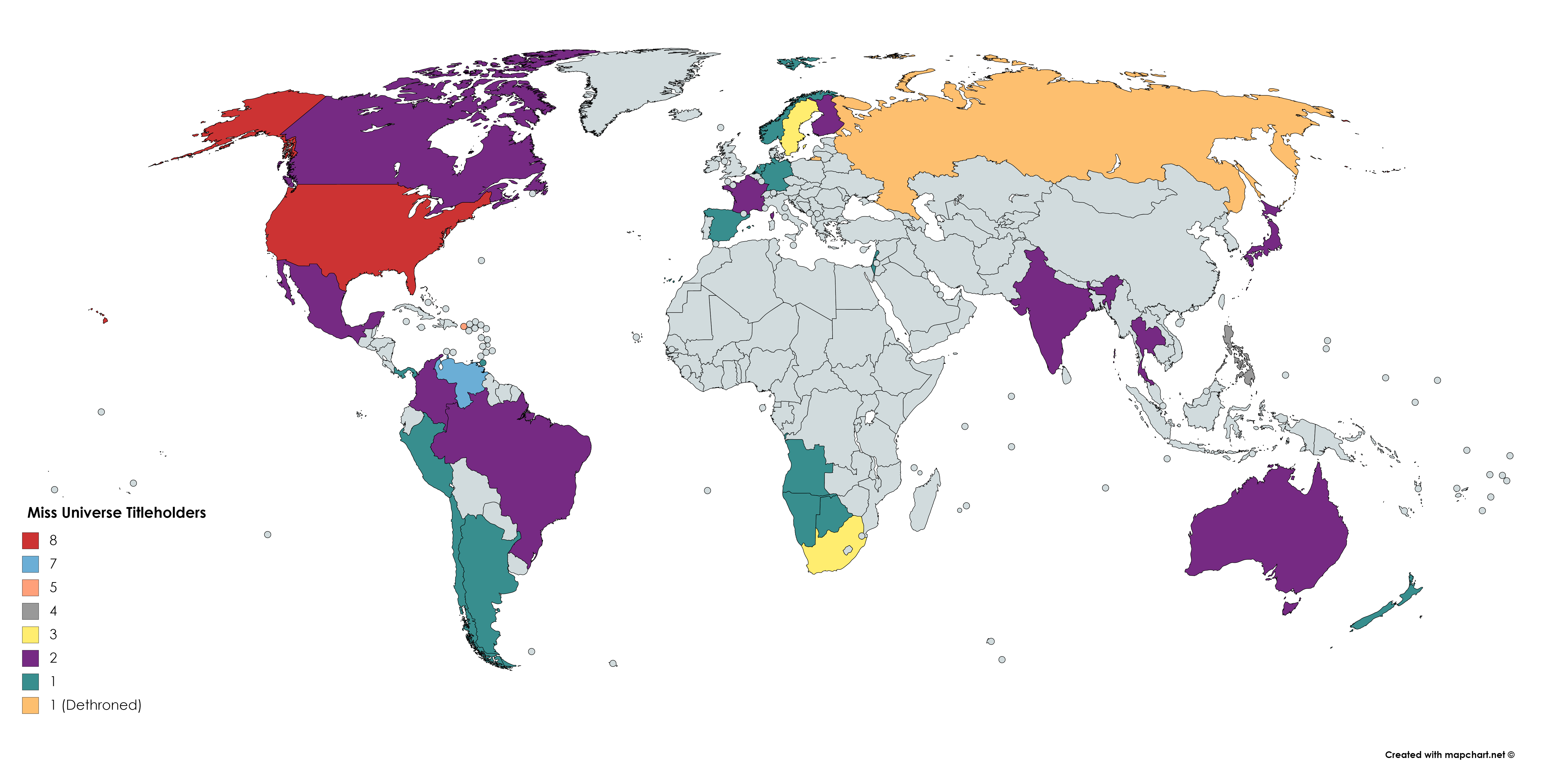 Miss Universe Titleholders